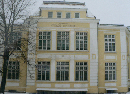 Todor Minkov Primary School building, Sofia